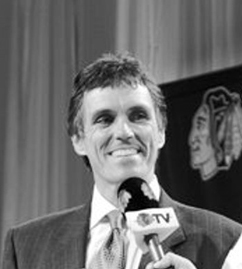 Tom Tuohy speaking with Blackhawks TV.